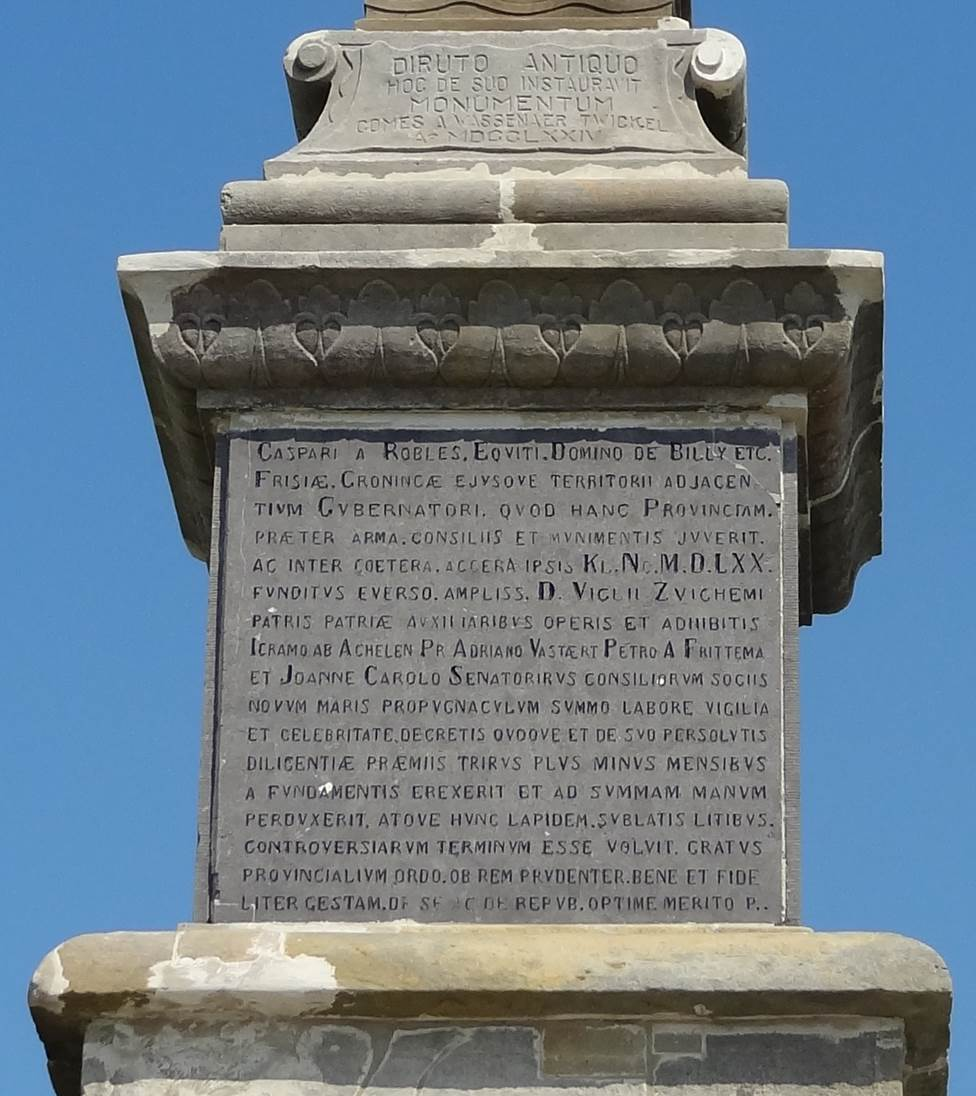 Latin words on the terminus